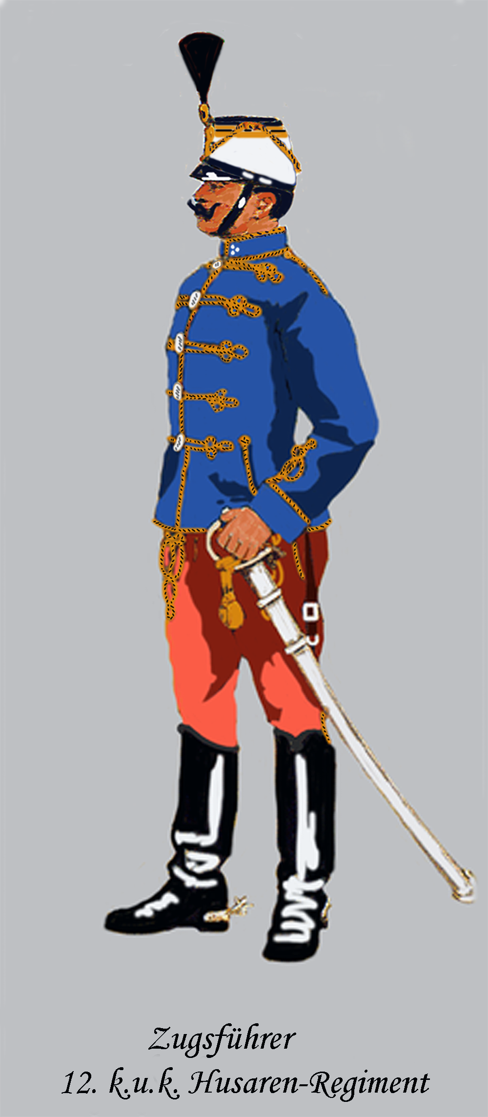 Sergeant of the 5th Austria-Hungarian Hussars-Regiment in Servisedress. Uniformstyle in use until about 1916